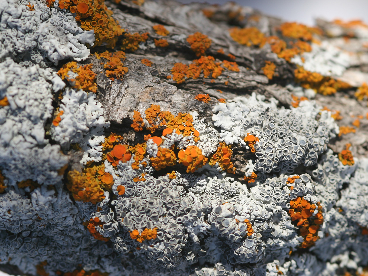 Photo taken by me, User debivort, December 2005, Colorado USA.